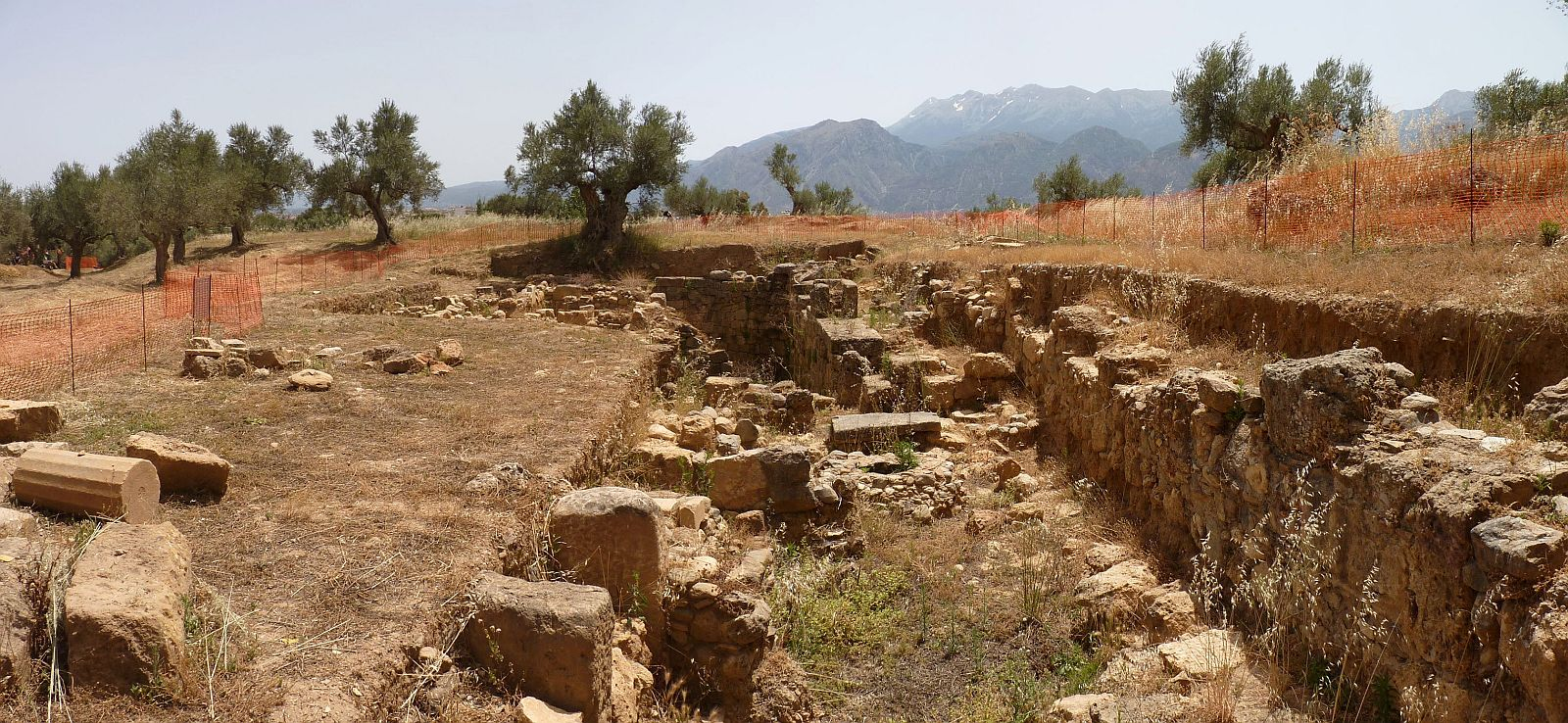 Sparta (Doric Greek: Σπάρτα, Spártā; Attic Greek: Σπάρτη, Spártē), or Lacedaemon, was a prominent city-state in ancient Greece, situated on the banks of the Eurotas River in Laconia, in south-eastern Peloponnese. You can use the images for free. But a link to - I would be happy :)